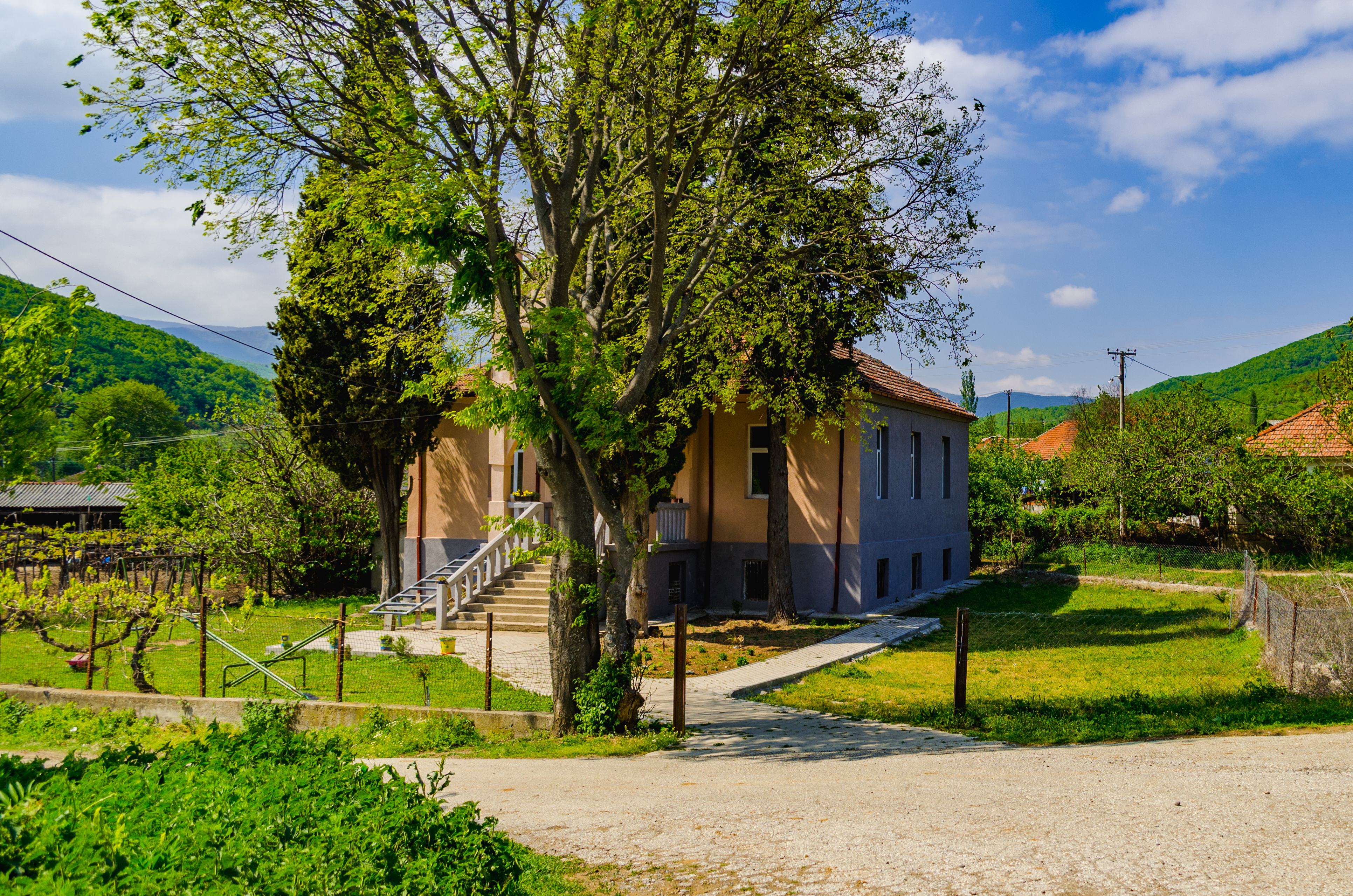 Primary school in the village Kovanec